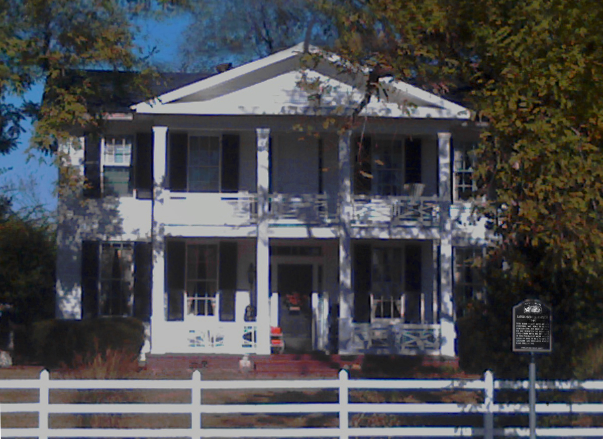 Dennis Lackland house, built in 1844 in Overland, MO